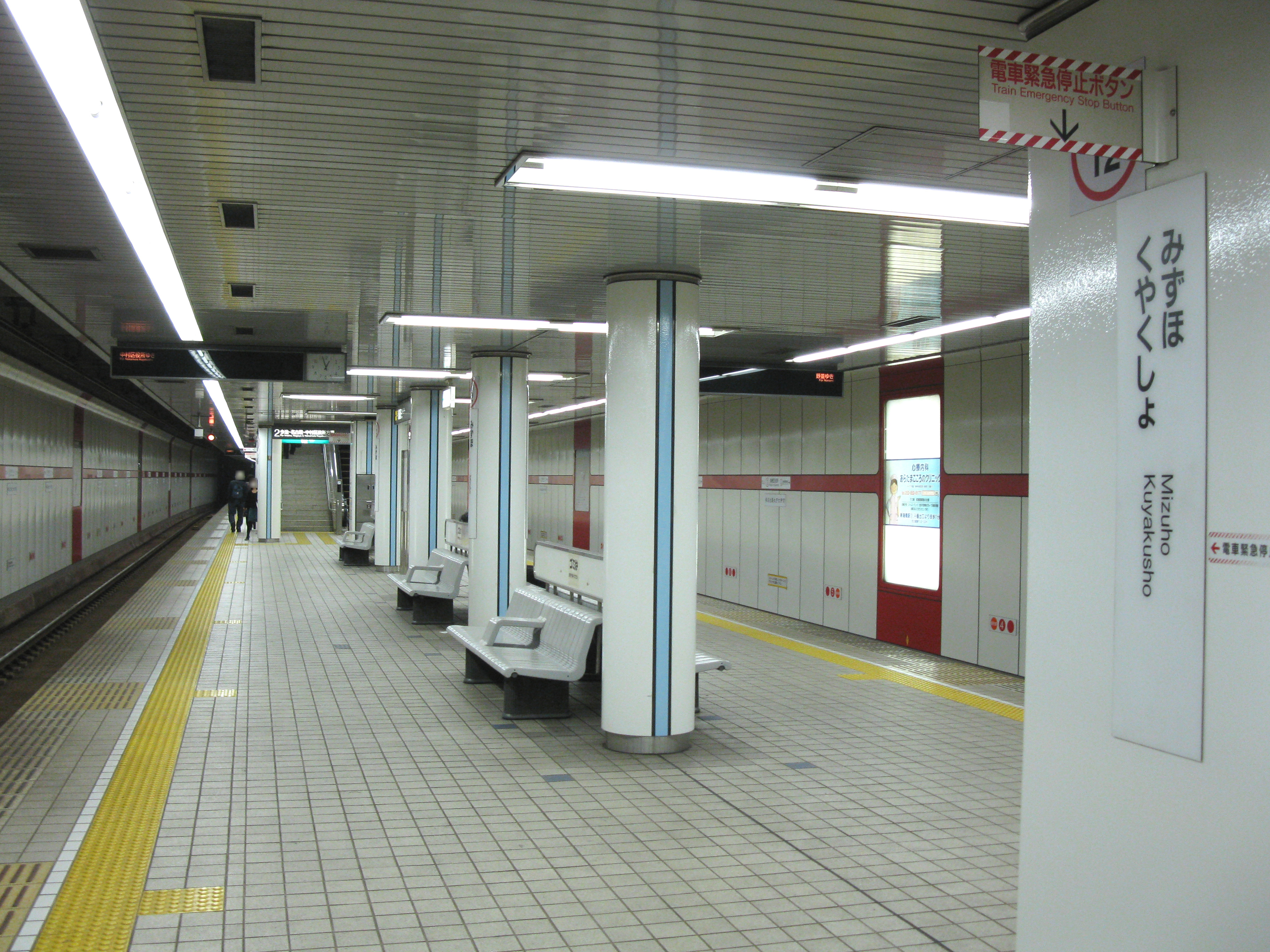 Mizuho Kuyakusho Station platform (Nagoya Municipal Subway Sakura-dōri Line)